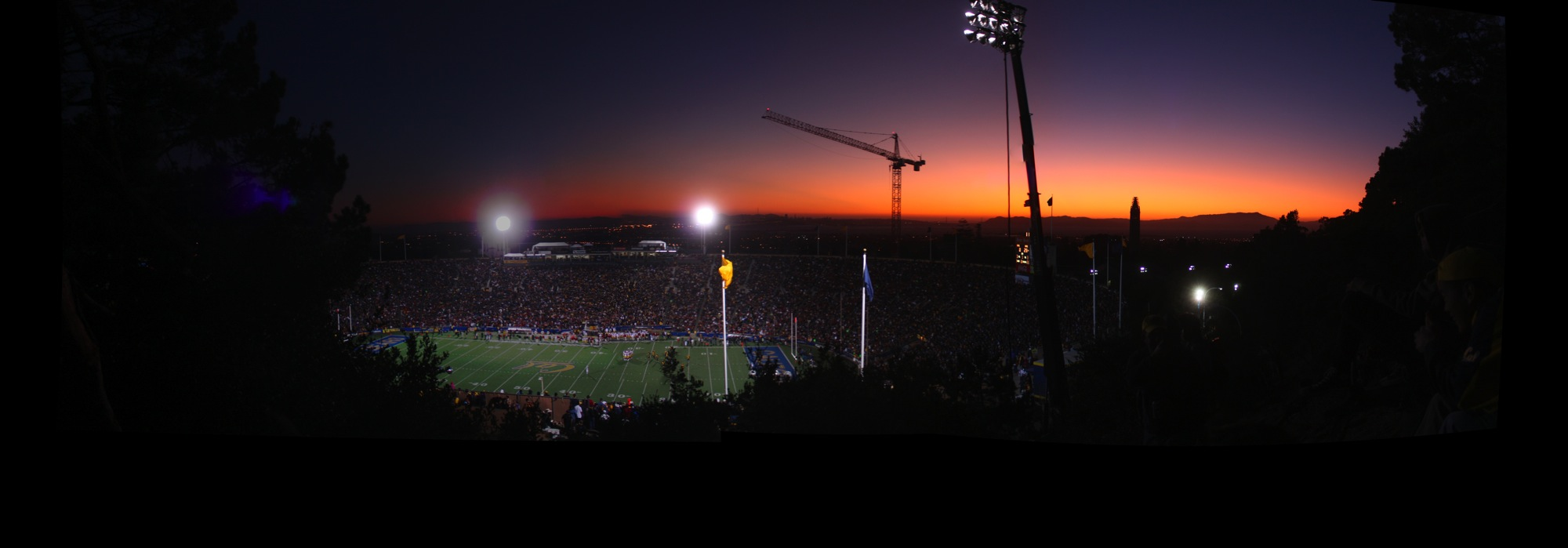 This is the view from Tightwad Hill, overlooking UC Berkeley's Memorial Stadium (AKA the Colosseum).